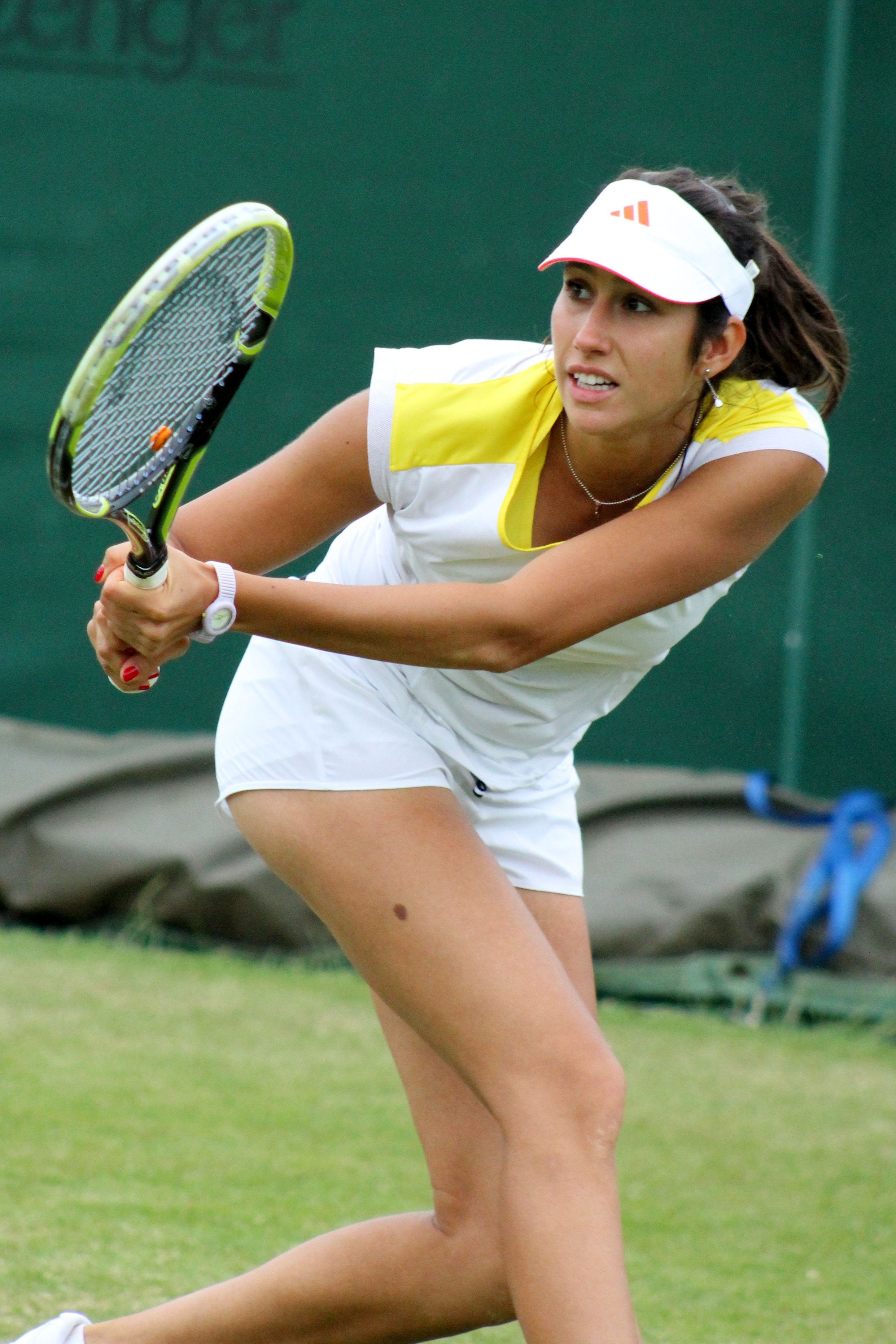 Nastassja Burnett playing at the Wimbledon Qualifying Tournament 2013